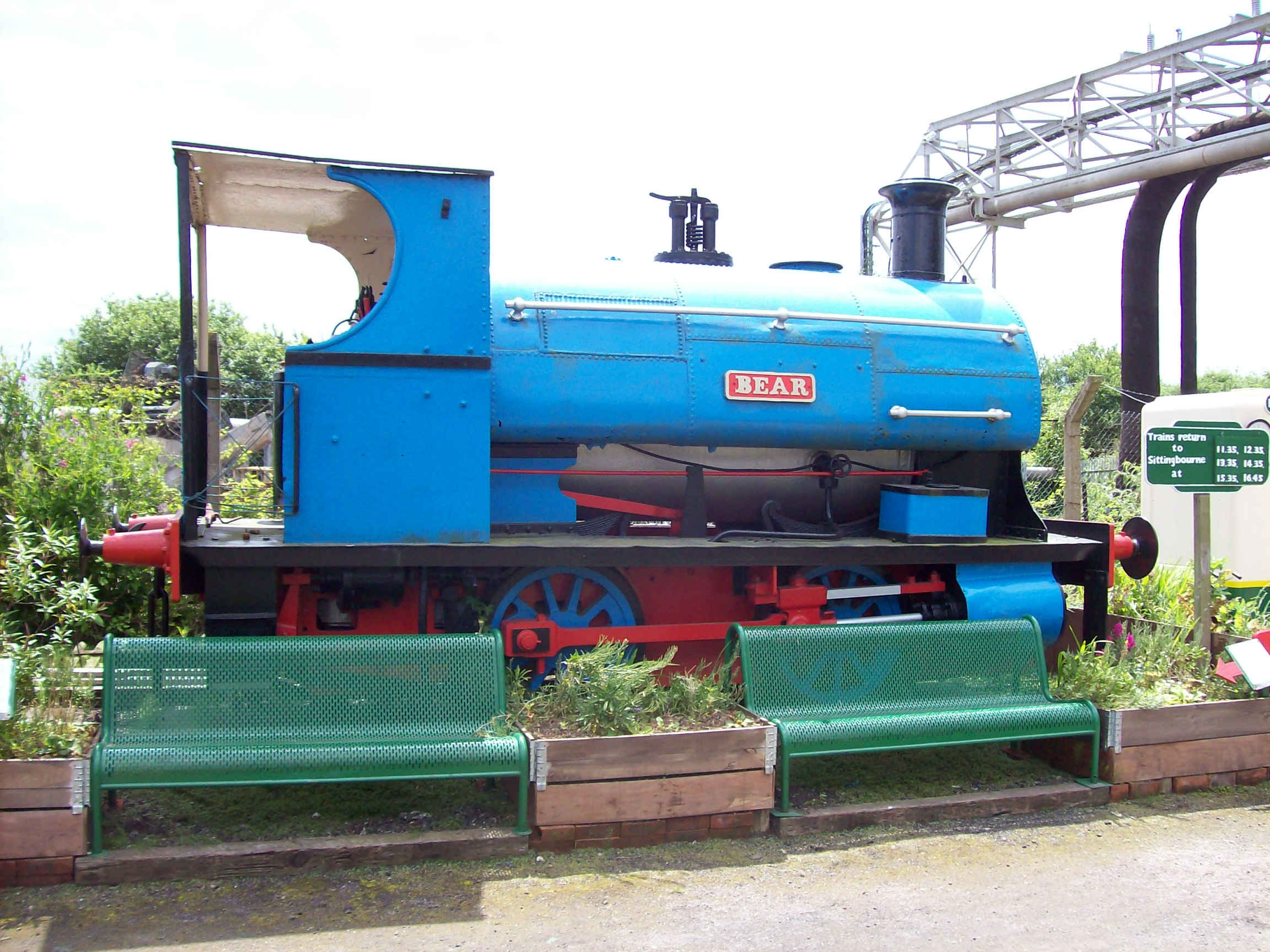 Peckett saddle tank Bear at SKLR